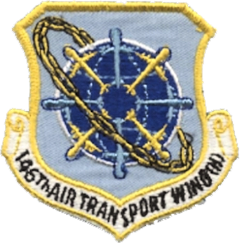 146th Air Transport Wing - Emblem